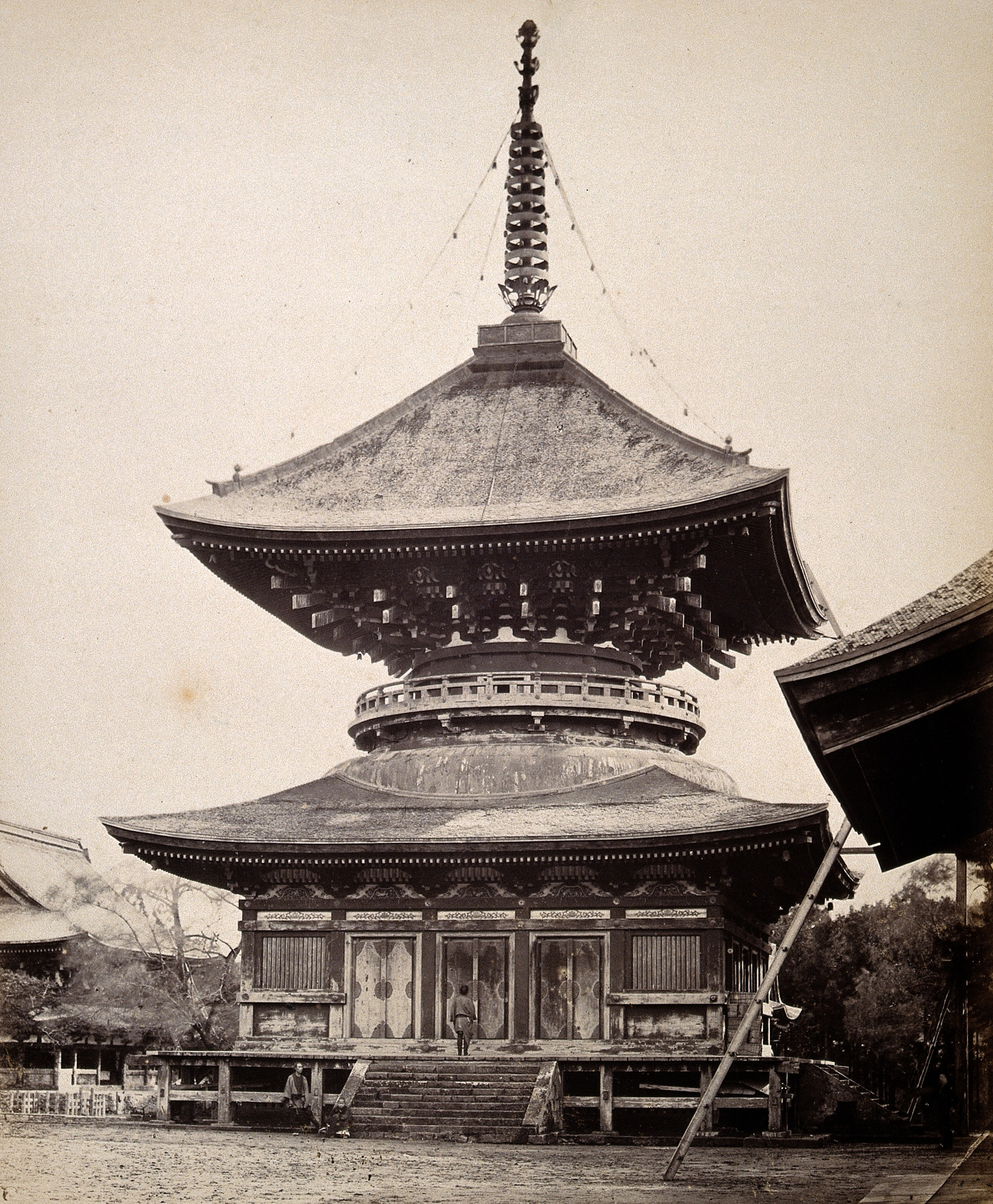 Photo by Felice Beato of the Yakushidō, a single story pagoda at Tsurugaoka Hachiman Shrine, Kamakura Iconographic Collections Keywords: Felice Beato